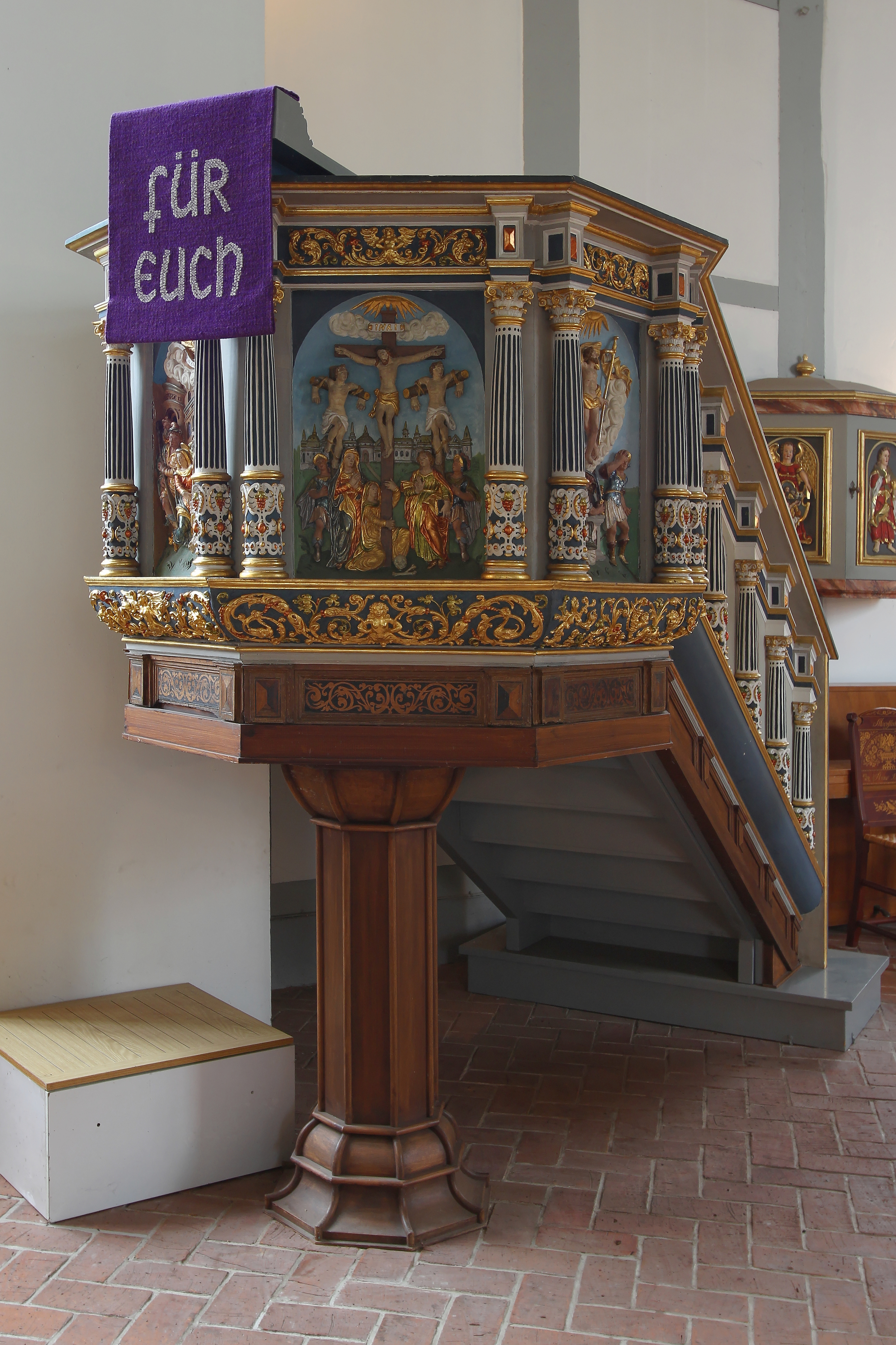 Pulpit of St.Nikolai-church in Hamburg-Moorfleet